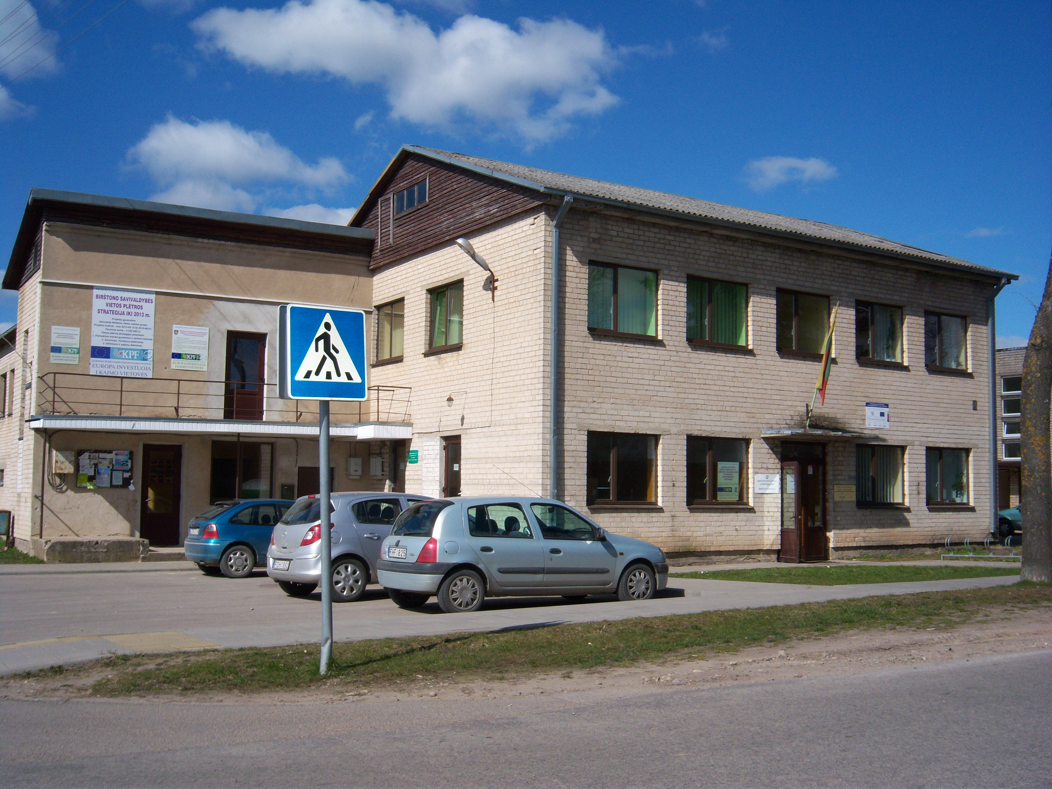 Eldership in Birštono Vienkiemis, Birštonas Municipality, Lithuania